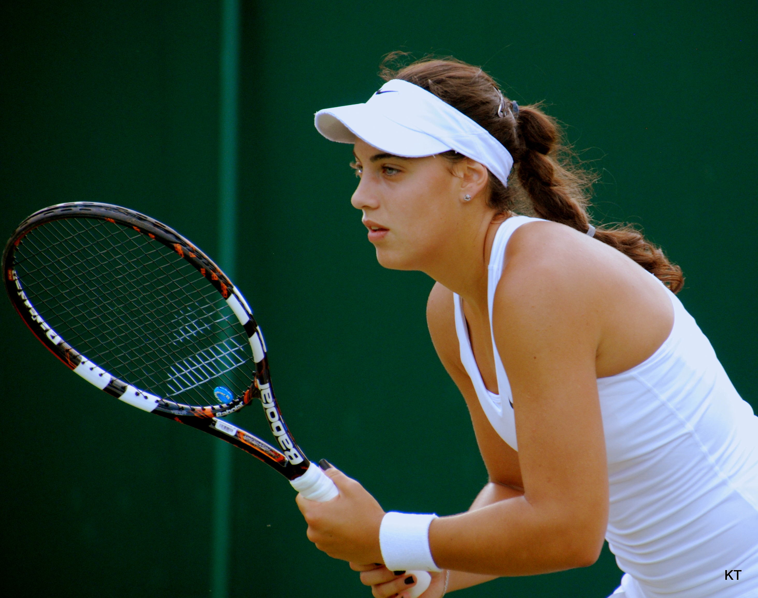 Day 3 of Wimbledon 2014.